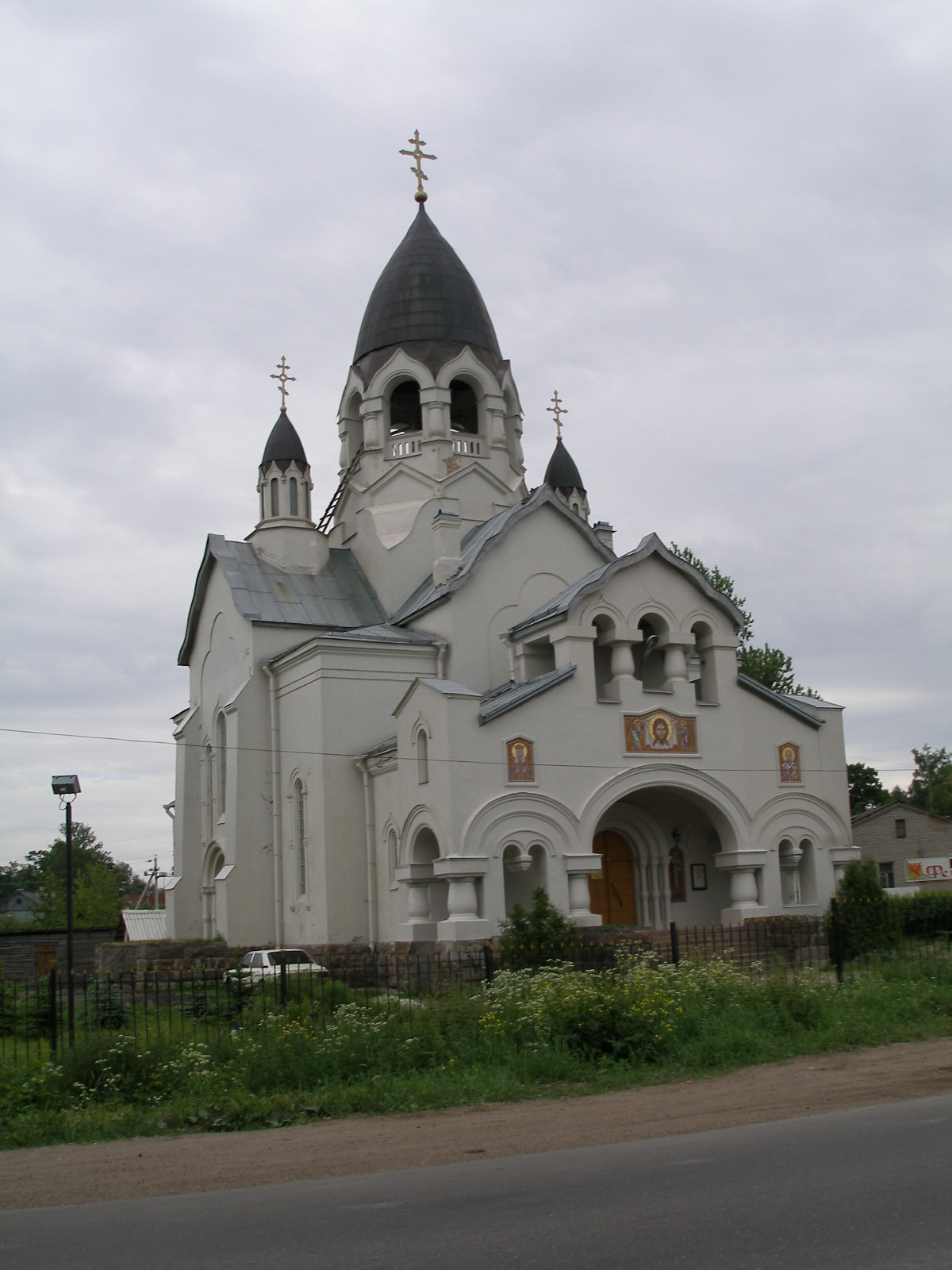 Church in Taitsy (Leningrad oblast)